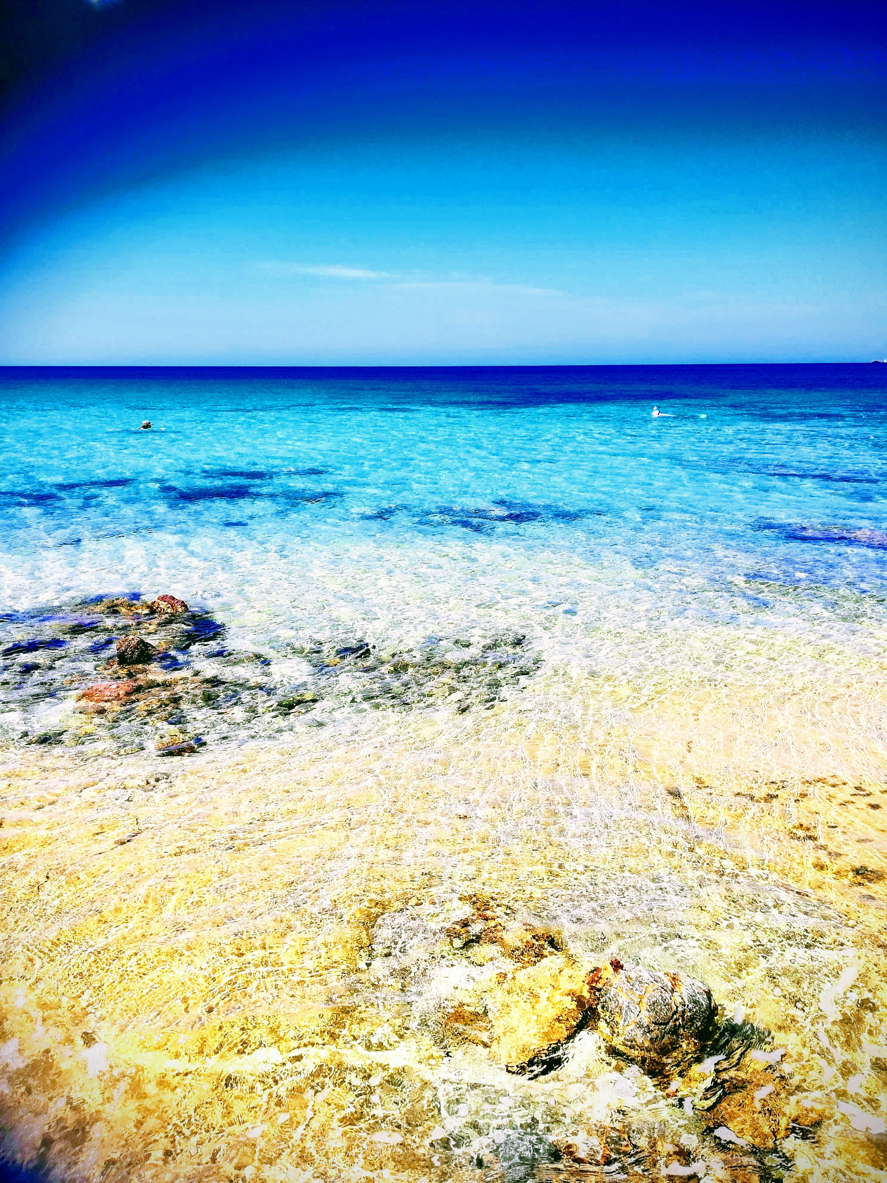 This is a photography of Natura 2000 protected area with ID GR4340001